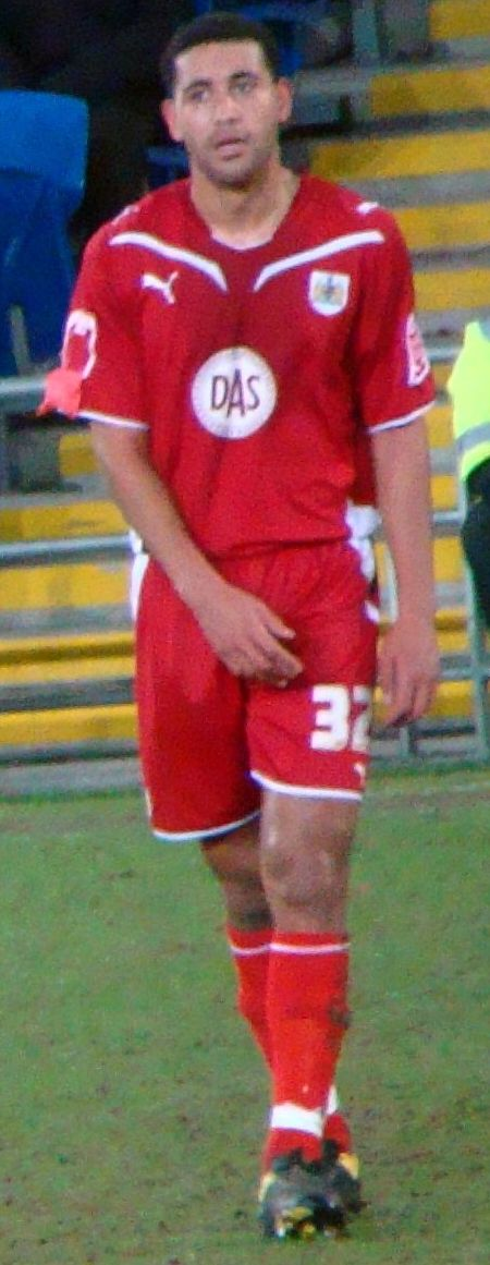 19/01/10 Cardiff City V Bristol City, FA Cup 3rd Round. Cardiff City Stadium, Cardiff, Wales